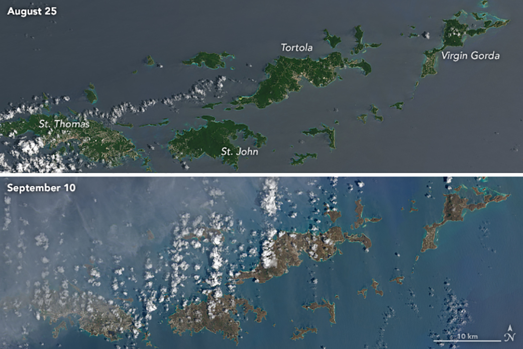 Satellite images of the Virgin Islands taken on August 25 and September 10, 2017, illustrating the damage done by Hurricane Irma to the vegetation of the islands.